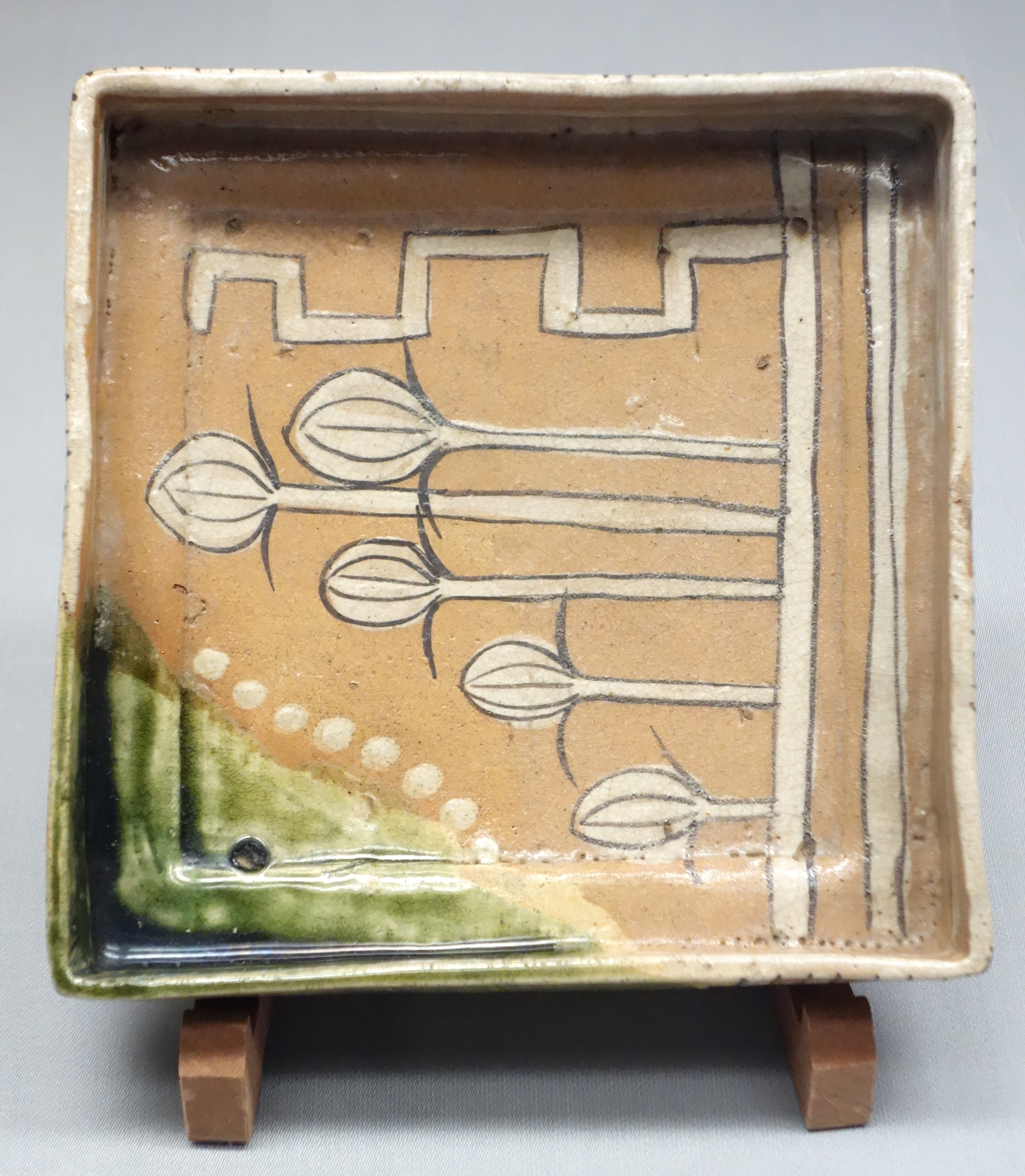 Exhibit in the Tokyo National Museum, Tokyo, Japan. This artwork is old enough so that it is in the public domain.